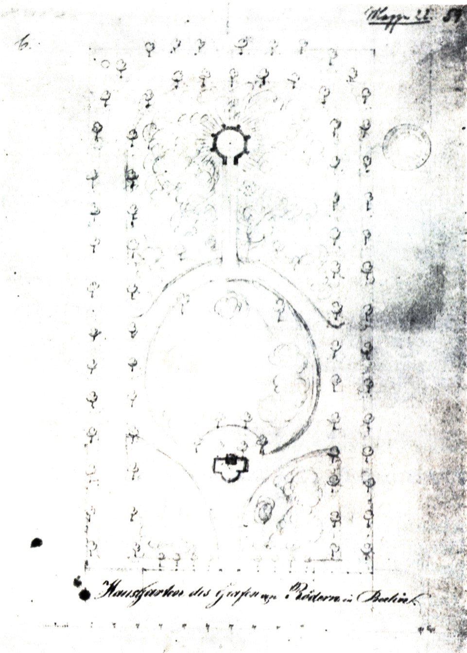 Berlin - plan for the garden of Palais Redern, by Peter Joseph Lenné, around 1835